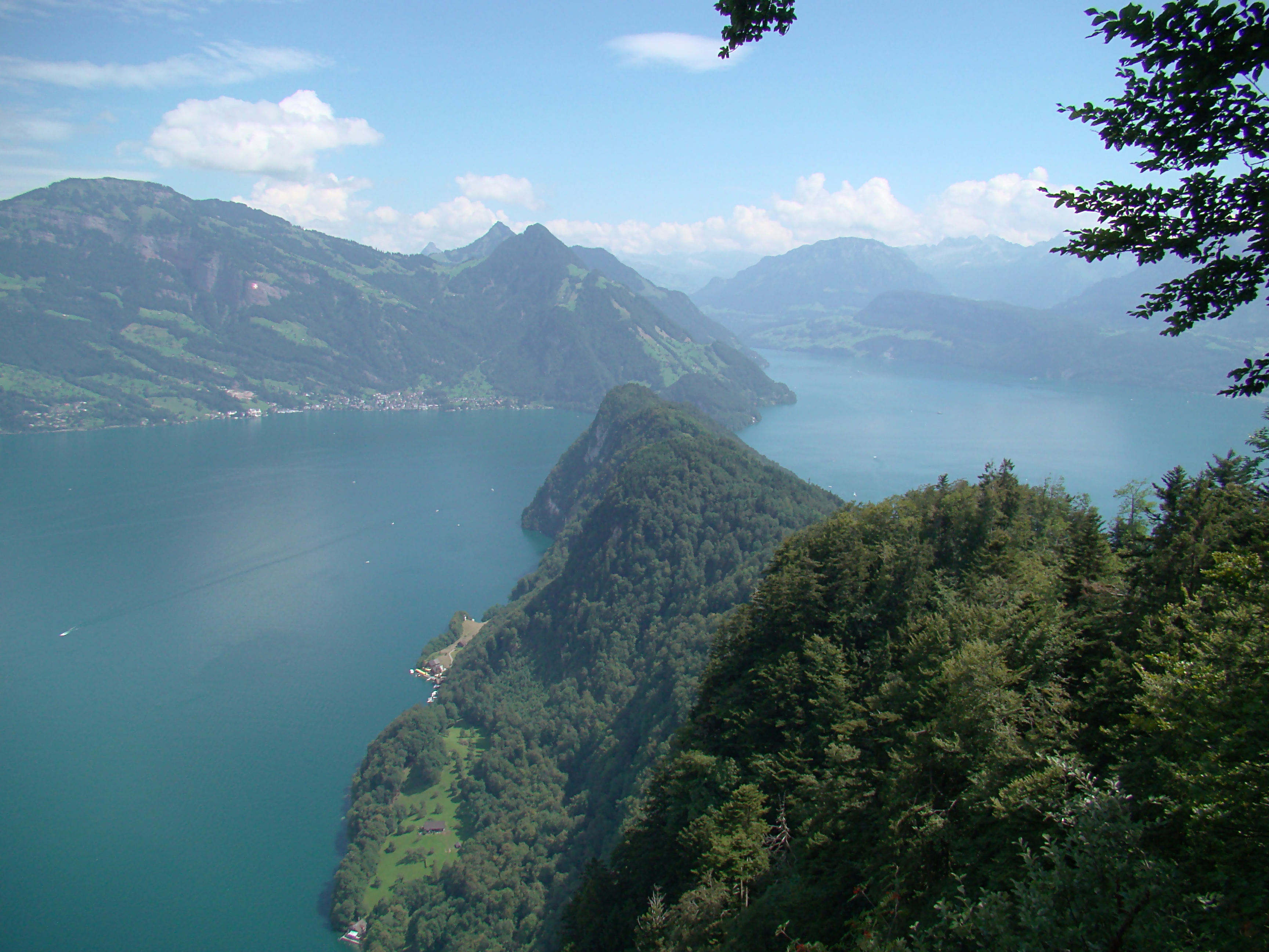 Bürgenstock, eastward view from the Chänzli